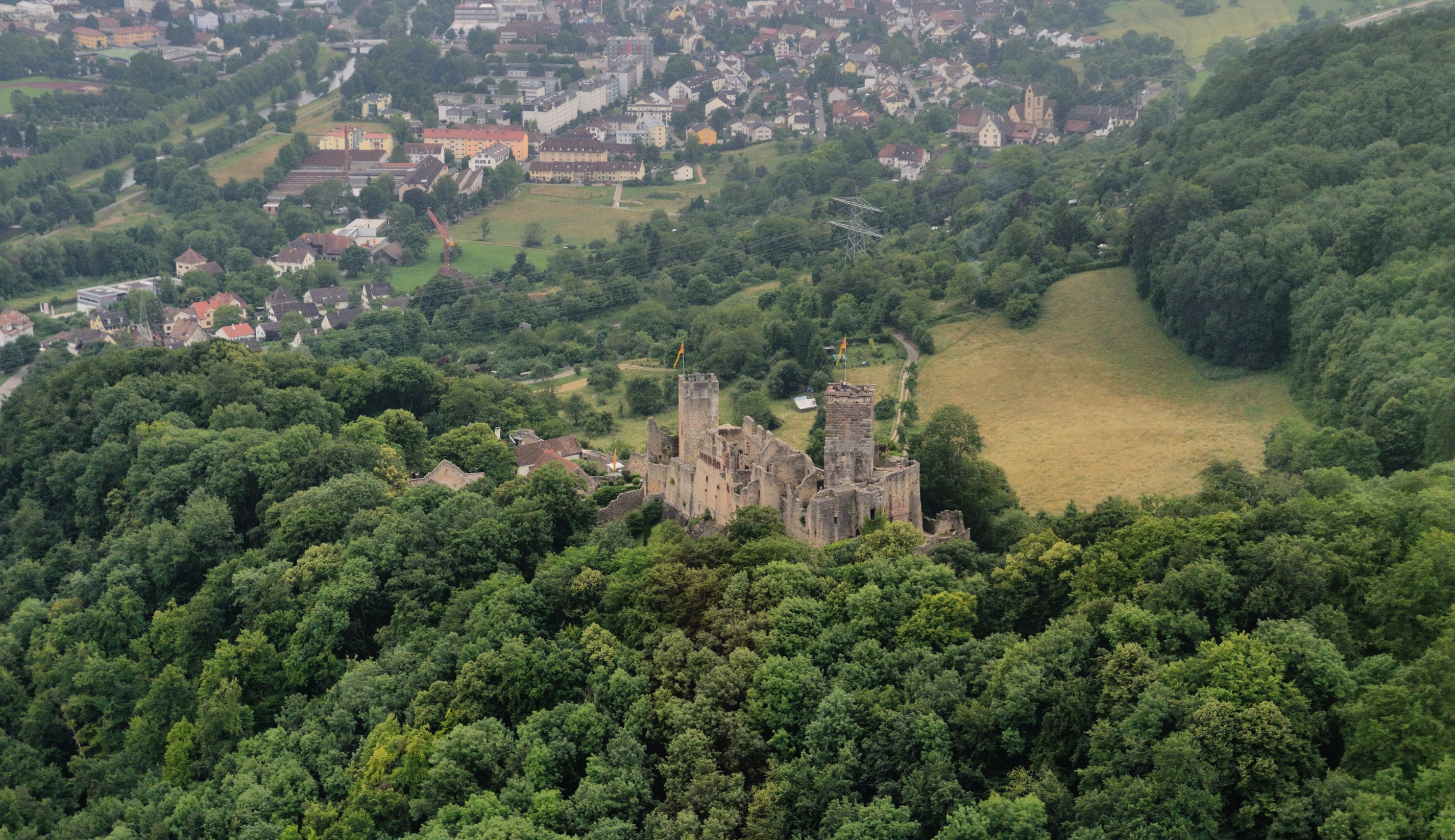 Lörrach: aerial view of Rötteln Castle and surrounding